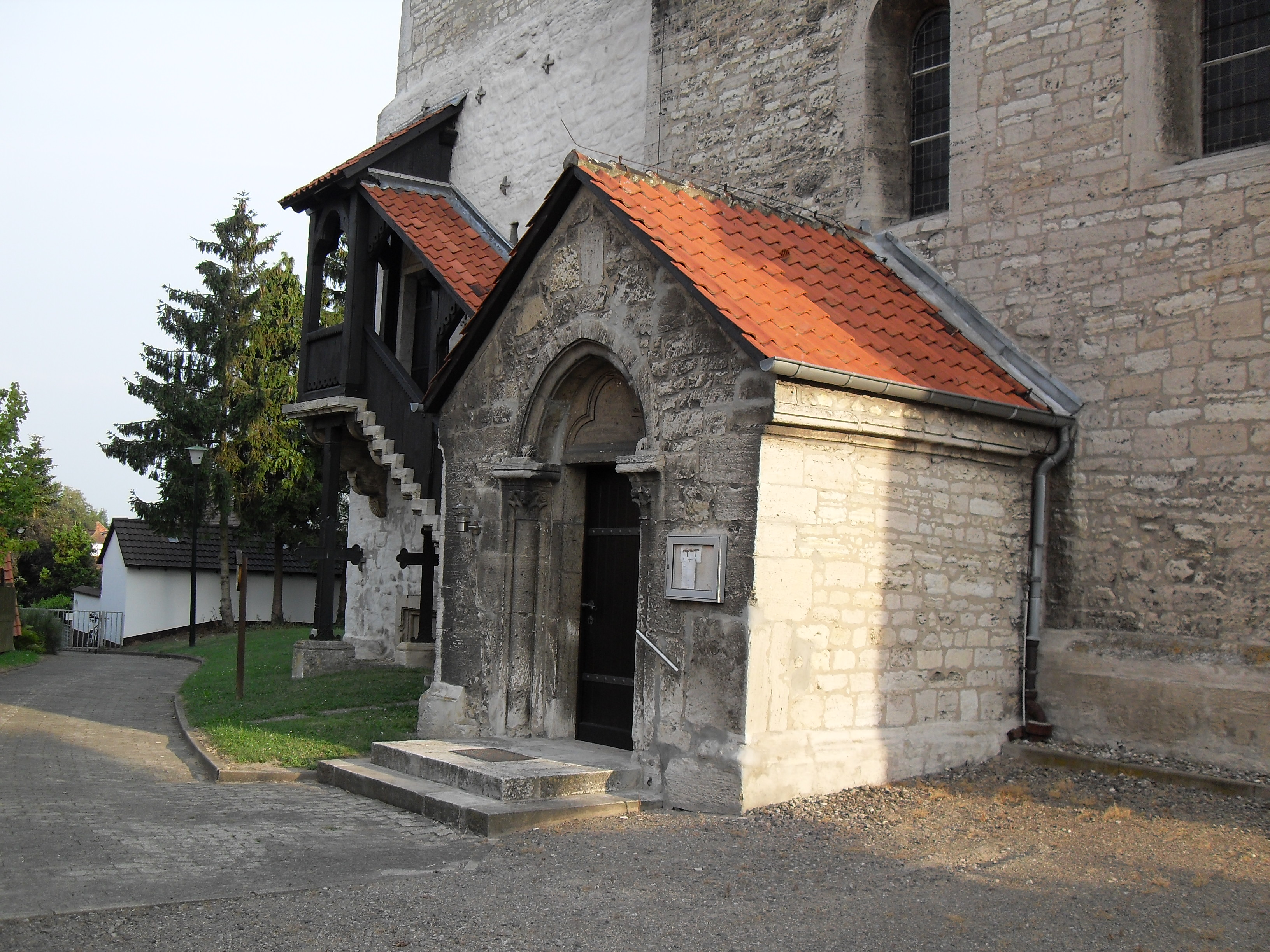 church in AMpleben